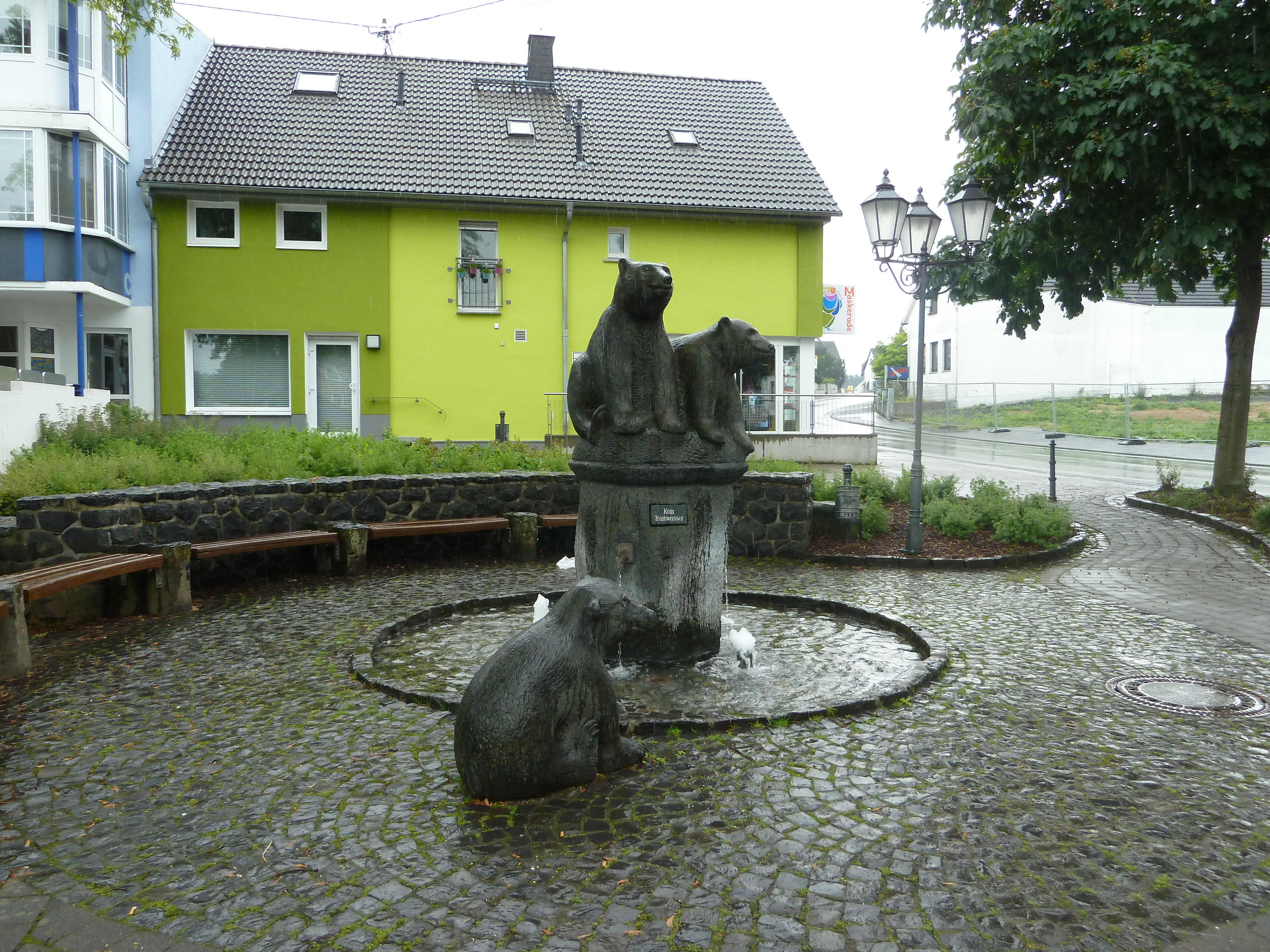 Bärenbrunnen, a fountain in the German village Hundsangen.